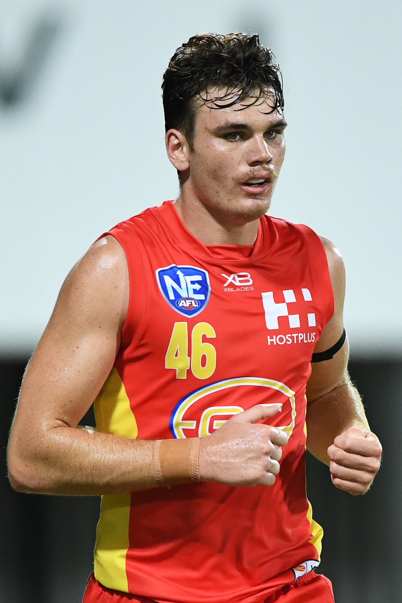 Caleb Graham of Gold Coast during the 2019 NEAFL round 5 match between NT Thunder and Gold Coast at TIO Stadium on Saturday, 4 May 2019 in Darwin, Australia.